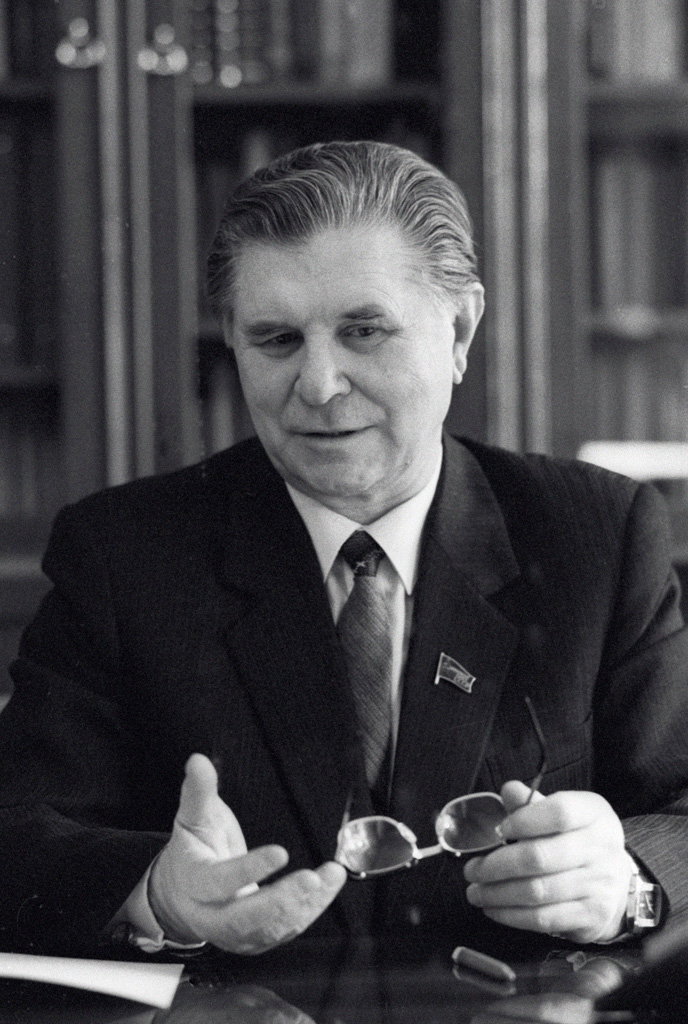 “Alexander Rekunkov”. Alexander Rekunkov, U.S.S.R. Prosecutor-General.